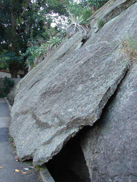 Mass movement and exfoliation in gneiss, Urca, Rio de Janeiro, Brazil